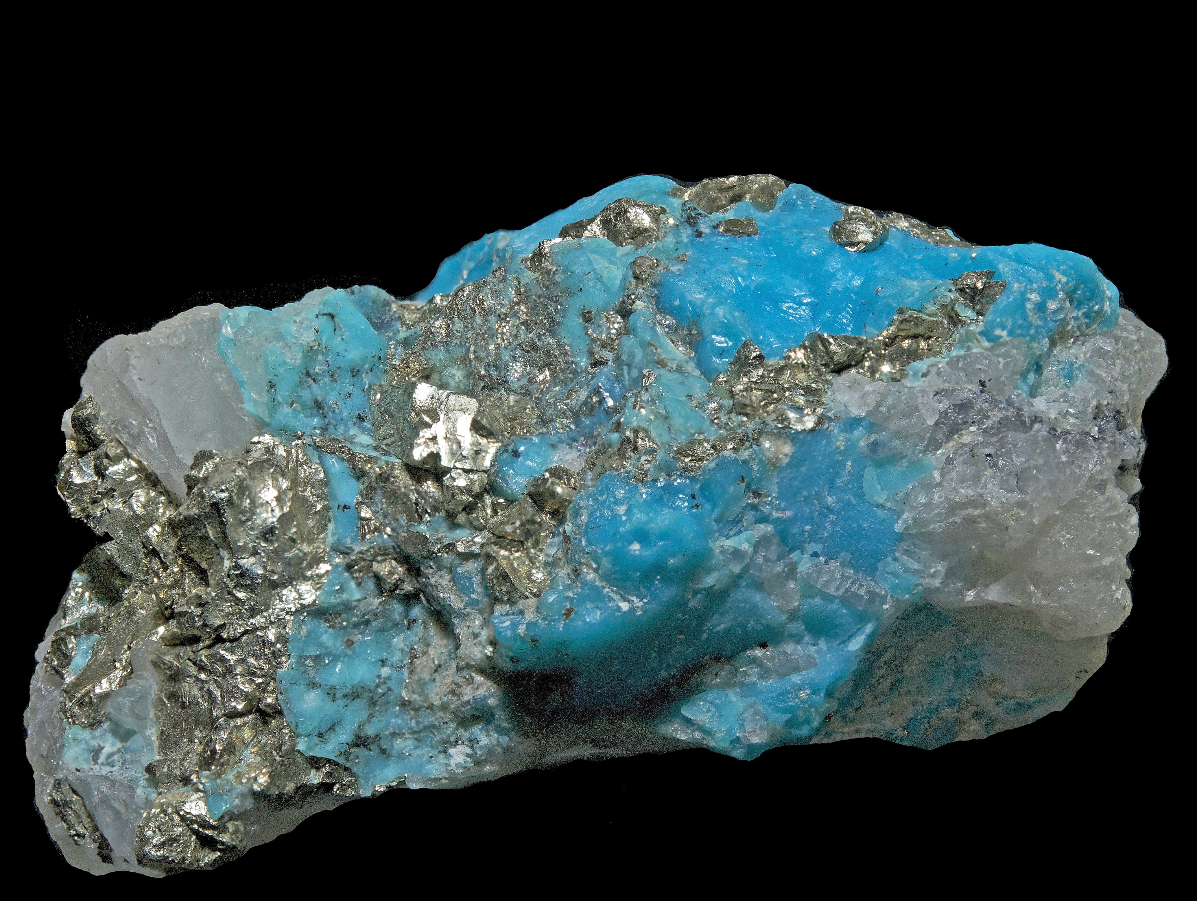 crystals of turquoise, crystals of pyrite, crystals of quartz : cristaux de turquoie, cristaux de pyrite, cristaux de quartz : Copper Cities Mine (Sleeping Beauty Mine ; Lost Gulch Mine ; Yellow Metal Mine ; Diamond-H Mine), Copper Cities Mine area, Sleeping Beauty Peak, Miami-Inspiration District, Globe-Miami District, Gila Co., Arizona, USA